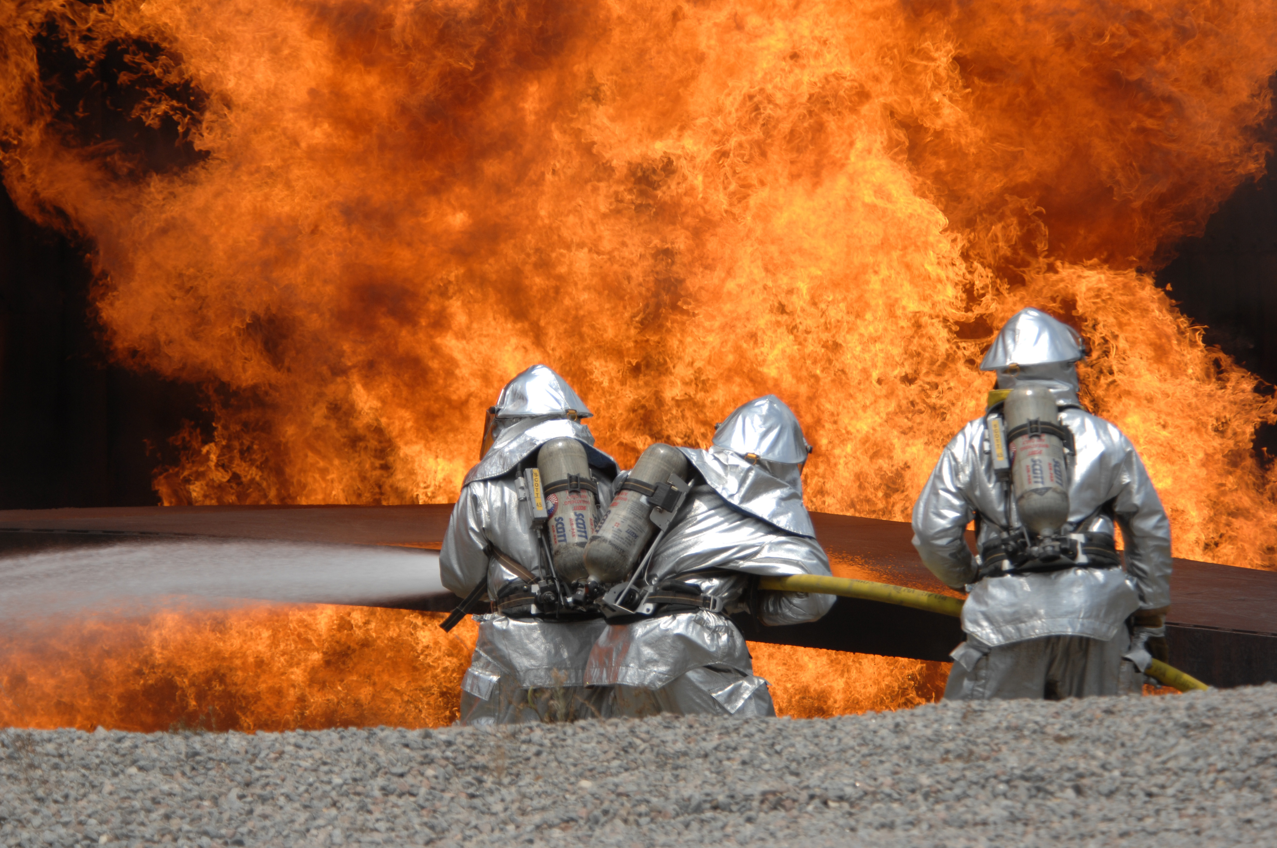 United States Air Force Airmen from the 20th Civil Engineer Squadron Fire Protection Flight neutralize a live fire during a field training exercise at Shaw Air Force Base in South Carolina May 23, 2007. The exercise includes training in self-aid buddy care, expedient firefighting, weapons handling, and night-vision devices.